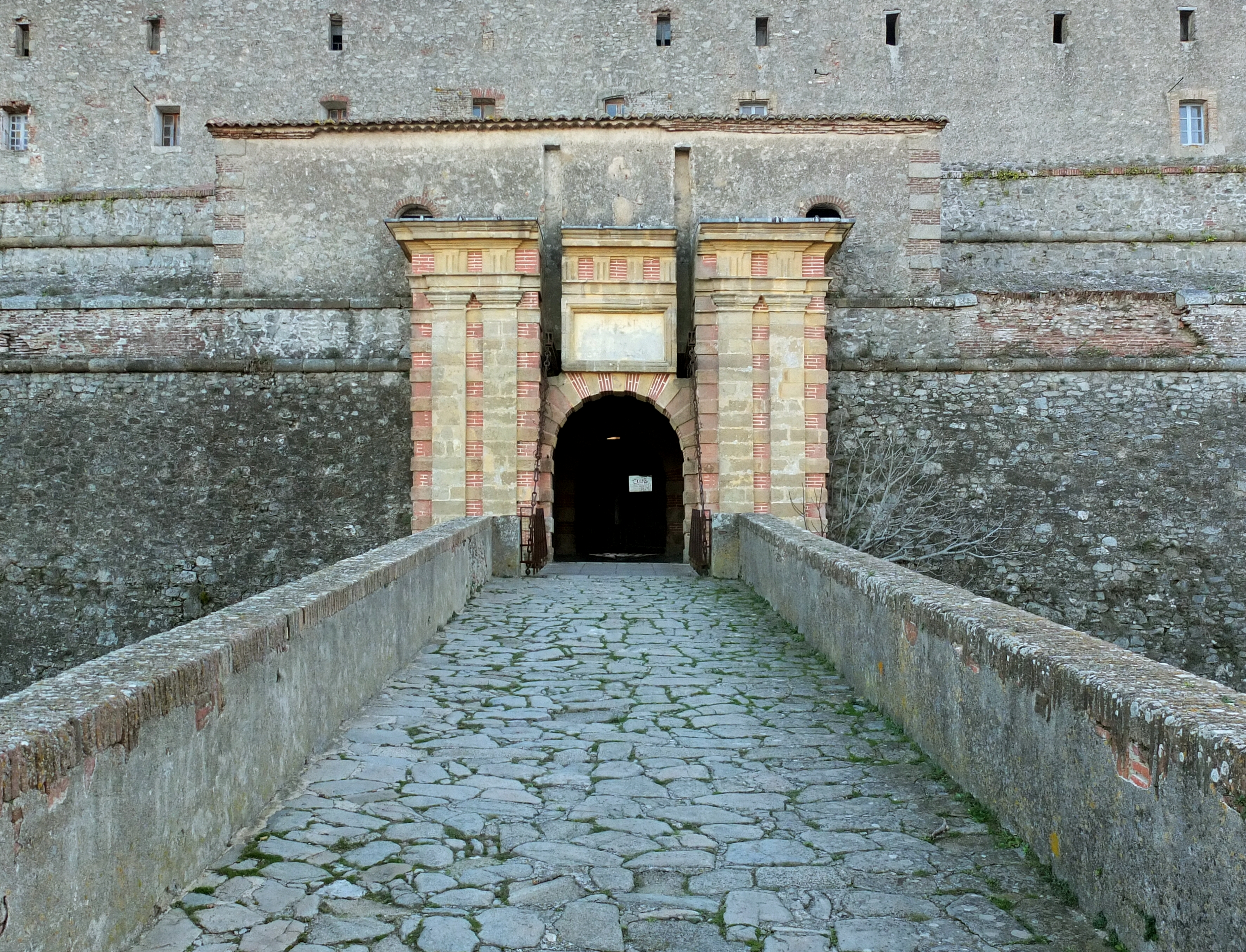 Main entrance of Fort de Bellegarde, near Le Perthus, France. Ministère de la Culture (France): Base Mémoire: MHR91_20086602879